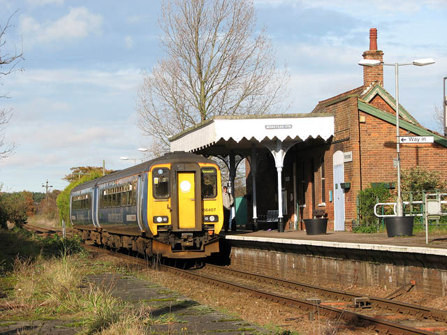 A train has arrived at Worstead Station The line connecting the city of Norwich with North Walsham was opened in 1874 and it reached the seaside town of Cromer by 1877. The rest of the line, between Cromer and Sheringham, opened in 1887. It is the remains of the Midland and Great Northern Joint Railway line (based in Melton Constable), part of which is preserved as a heritage railway, between the coastal town of Sheringham and Holt, further inland. Passenger services are operated by 'One Railway' which is part of the National Rail network, operated by National Express East Anglia and uses Class 150, Class 153, Class 156 or Class 170 diesel multiple units. The line is named after the Bittern (a member of the Heron family), a rare bird which can still be found in Norfolk's wetlands.